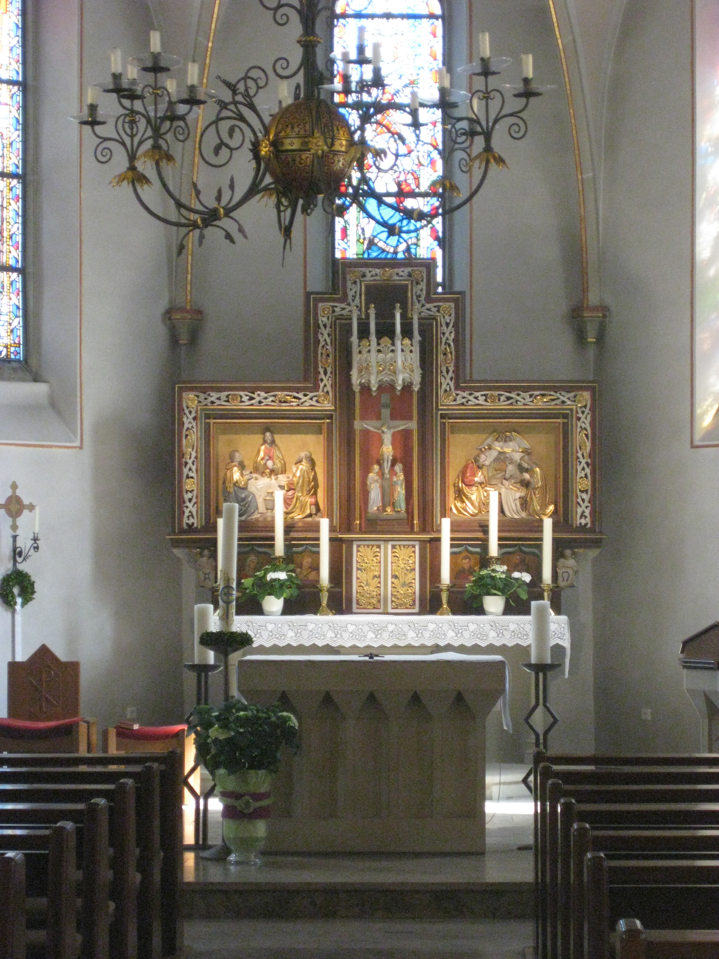 Altarpiece of Catholic church Saint Judoc in Wewelsburg, North Rhine-Westphalia, Germany